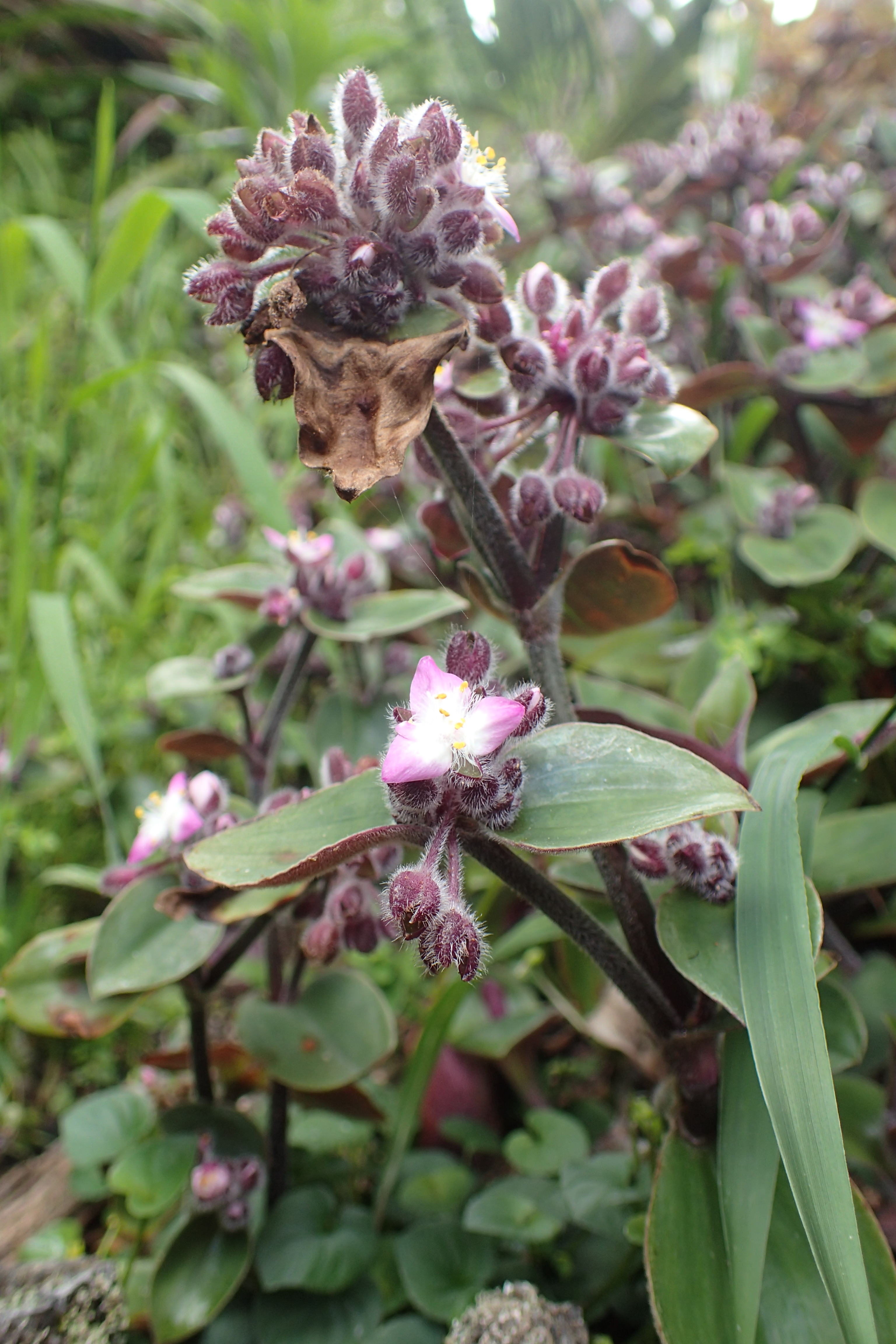 Tradescantia cerinthoides in Wellington Botanical Garden as a weed (invasive in New Zealand)